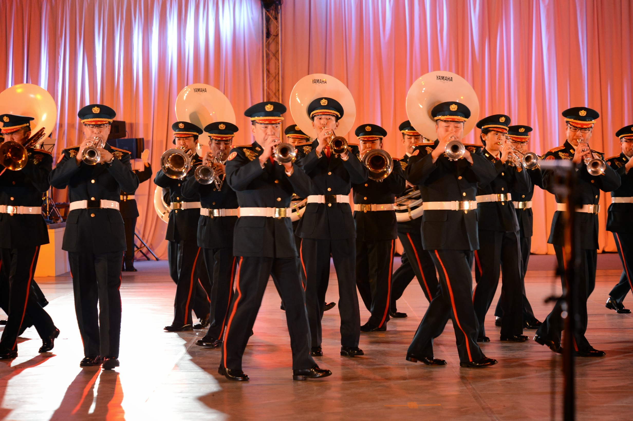 Title NOH_3983.JPG Album 平成25年度自衛隊音楽まつり Photographs by the Japan Ground Self-Defense Force